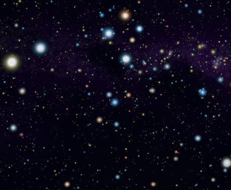 Image of Musca